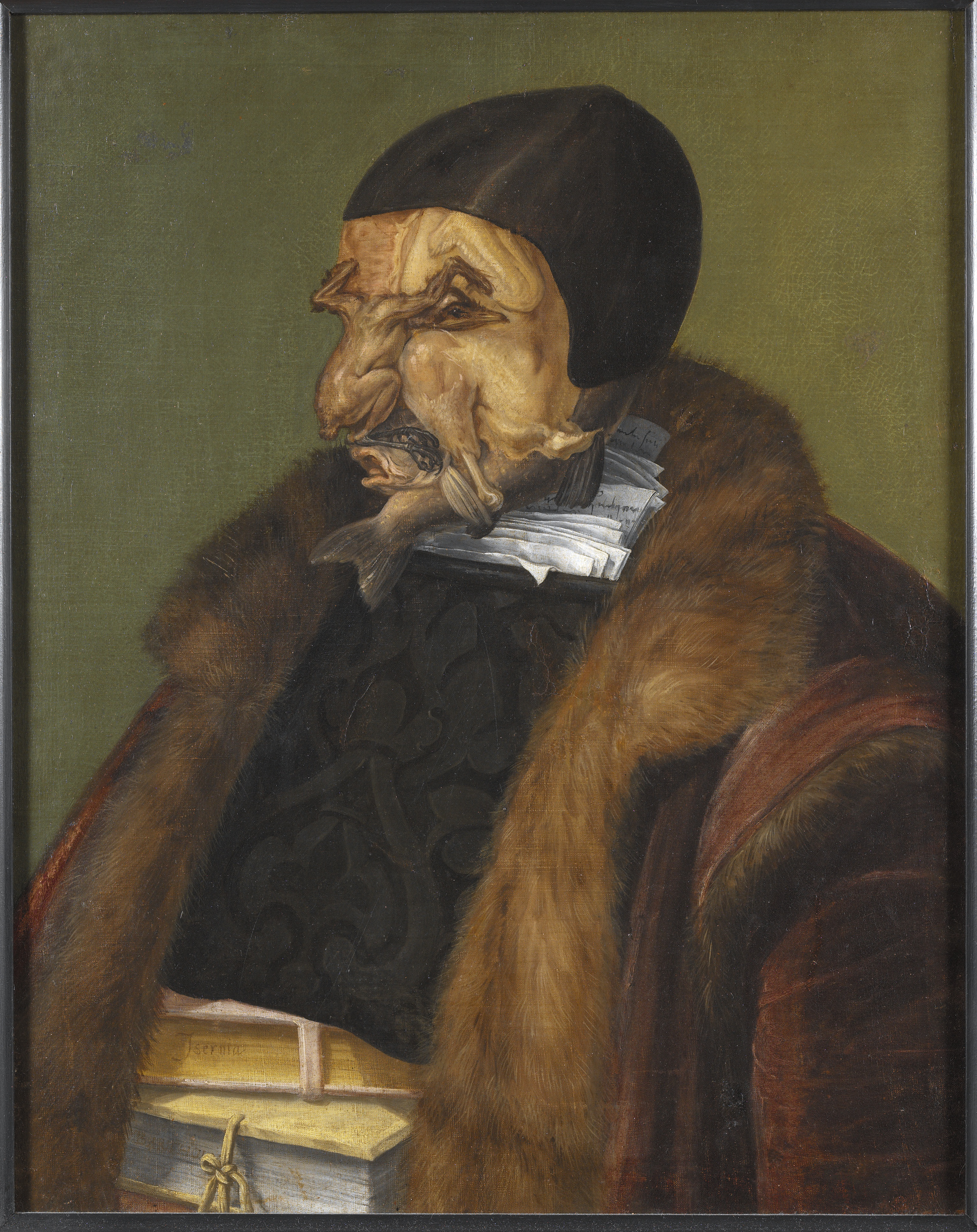 Arcimboldo’s paintings show human figures made up of different objects, with the aim of representing a particular subject. Here, a pile of books and documents has been draped in a fur-trimmed gown. The face consists of birds and fishes. The portrait is assumed to be of an official or scholar, possibly the lawyer Ulrich Zasius. Arcimboldo’s allegorical paintings were held in great esteem by Maximilian II and Rudolf II. This one belonged to the imperial collections in Prague and was brought to Sweden after the Thirty Years War.